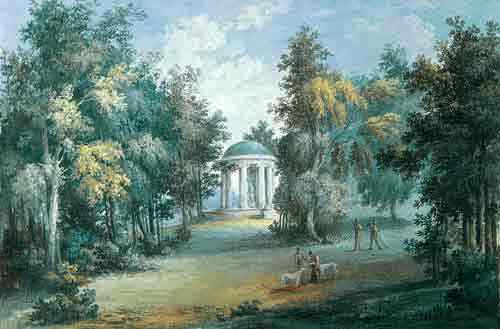 View of Temple of Catherine II in Bratzevo.